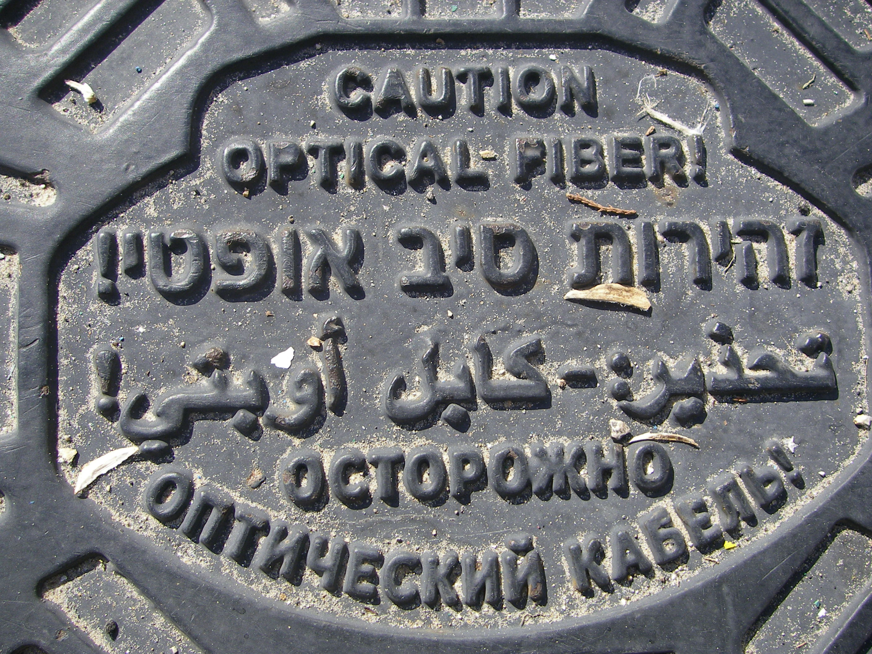 The manhole cover in Tel Aviv, Israel with the warning 'Caution, optical fiber [cable]' given in four languages, anmely, English, Hebrew, Arabic and Russian